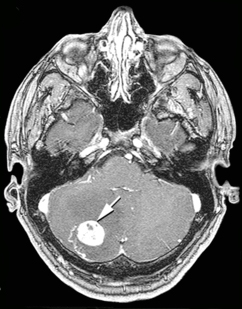 Hemangioblastoma of cerebellum